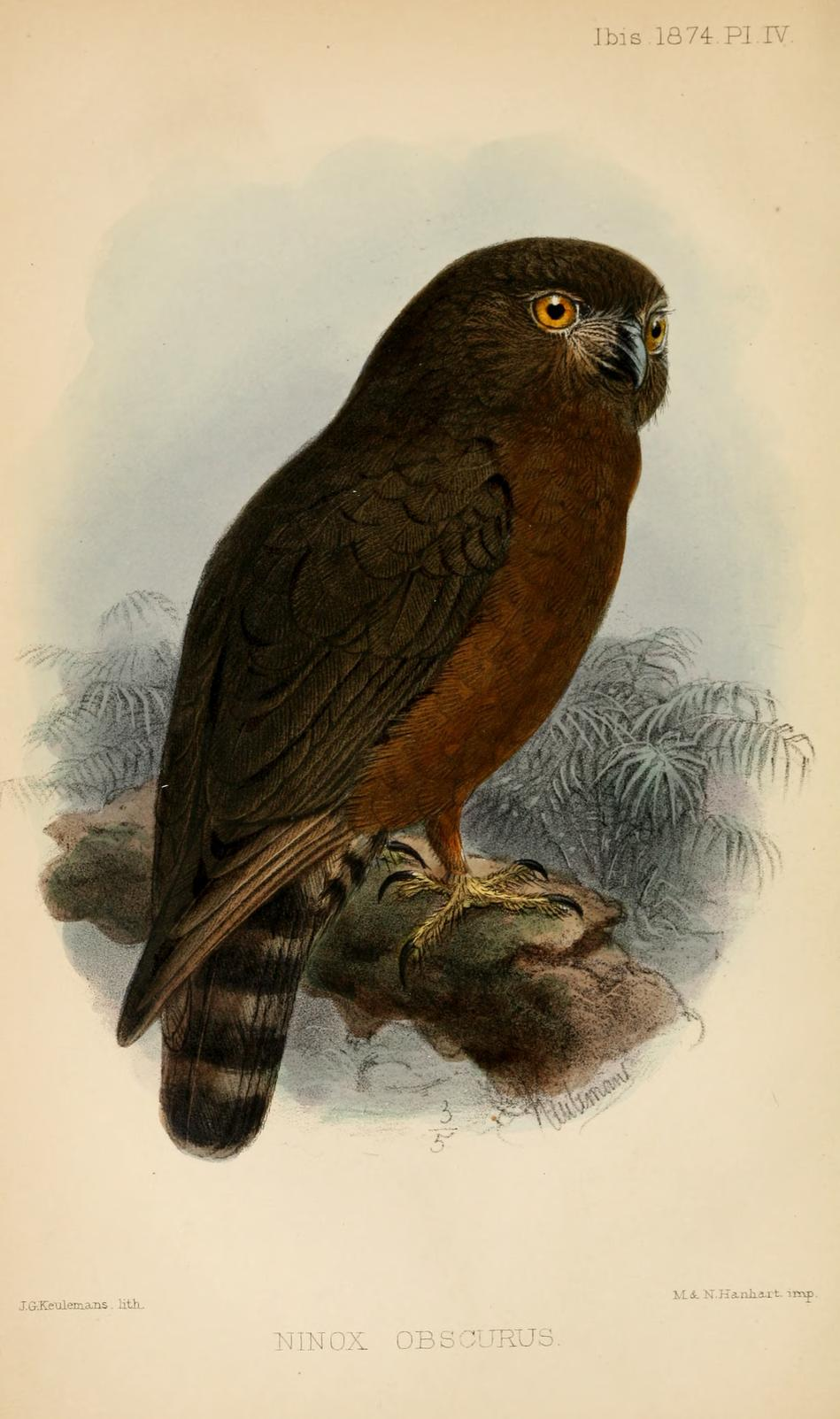 « Ninox obscurus » = Ninox obscura (Hume's Hawk-Owl)